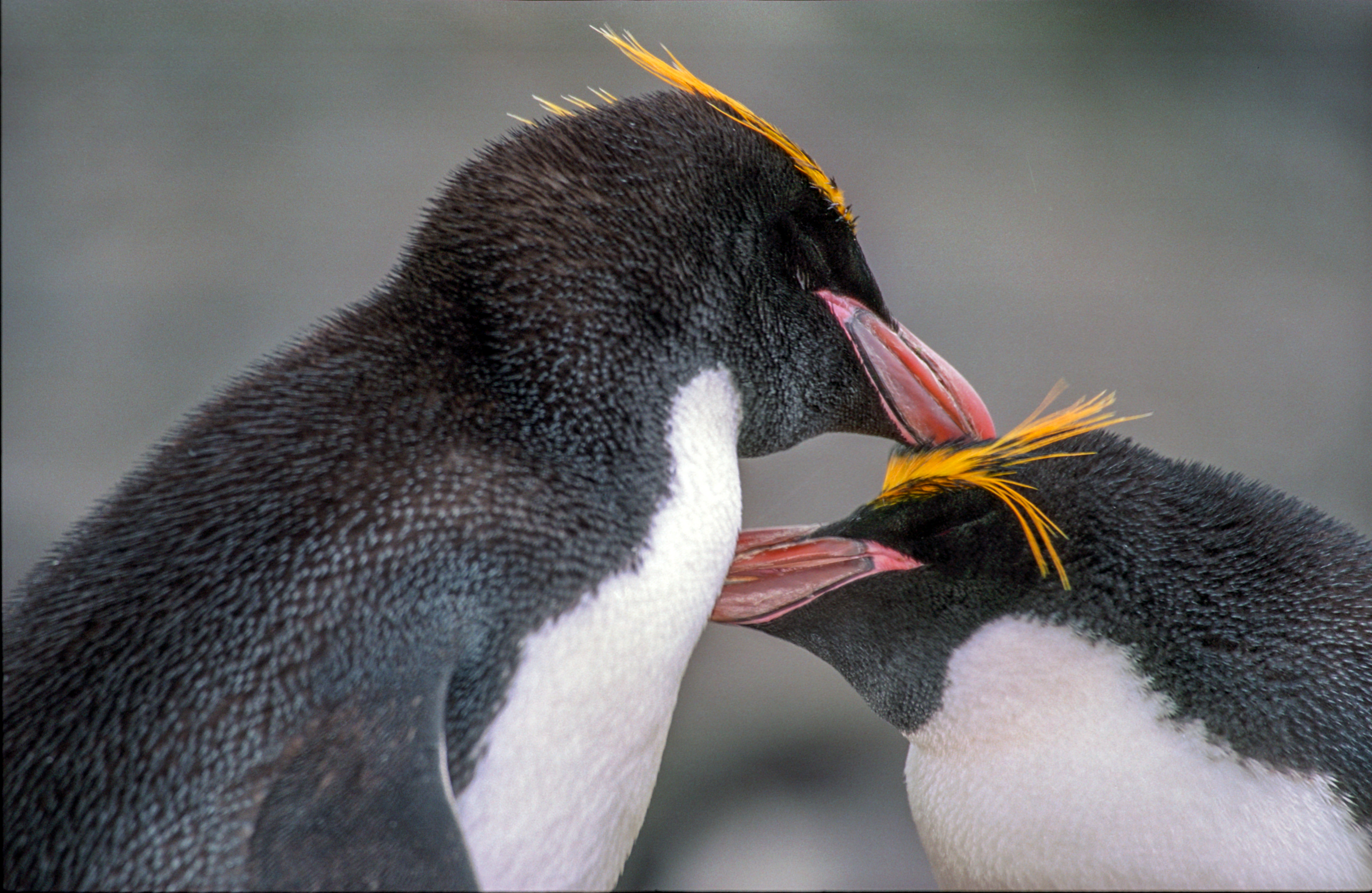 Macaroni Penguin, Hannah Point, Livingston Island: 62°39'S, 60°36'W, Antarctic Peninsula